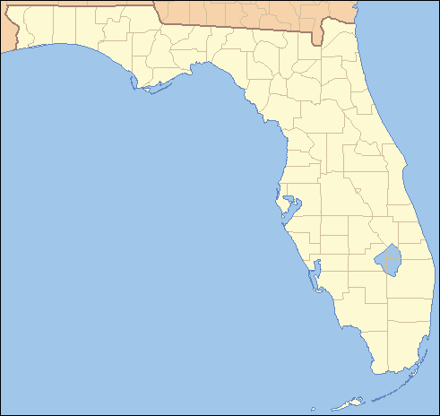 Locator Map of Florida, United States